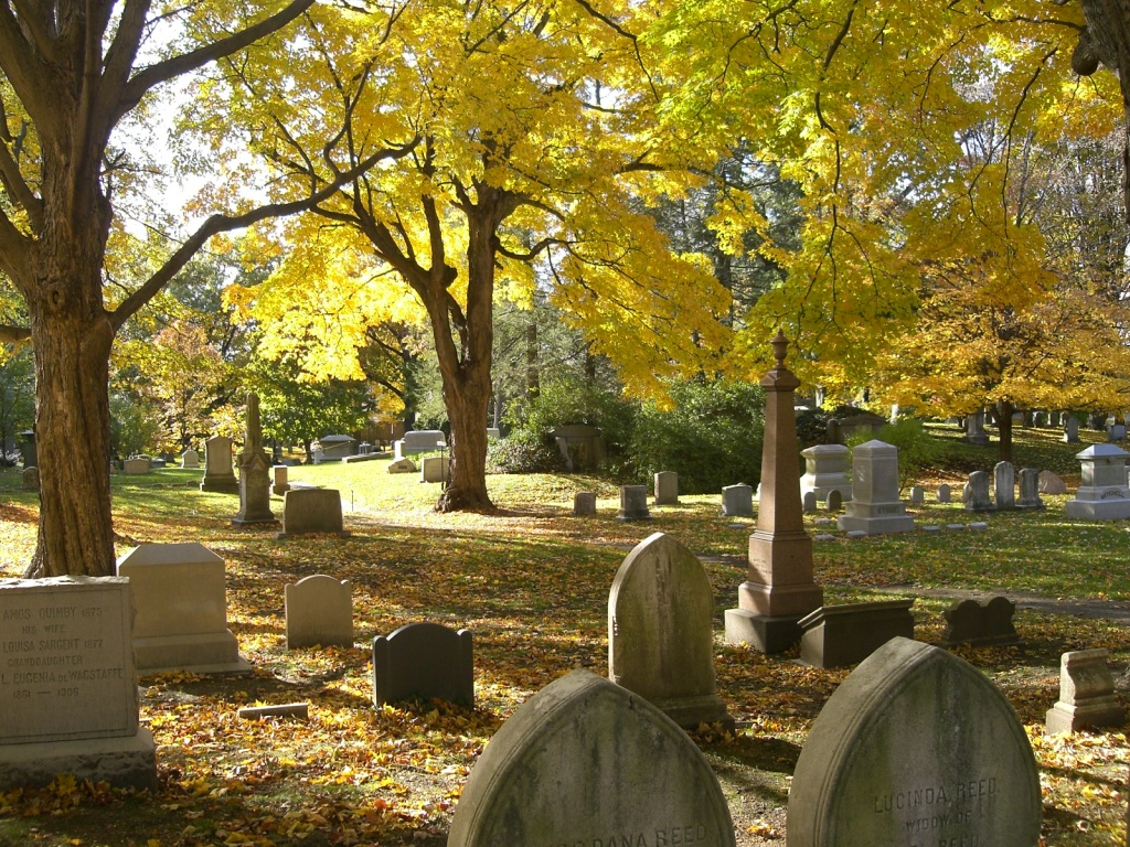 Cambridge (MA), Mt. Auburn cemetery